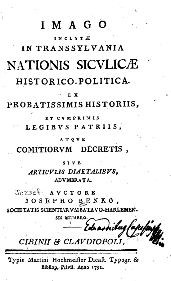 József Benkő: Imago Inclytae in Transsilvania Nationis Siculicae historico-politica (front page)